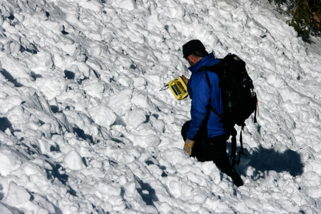 Rescuer using RECCO R9 detector on training drill in Colorado.